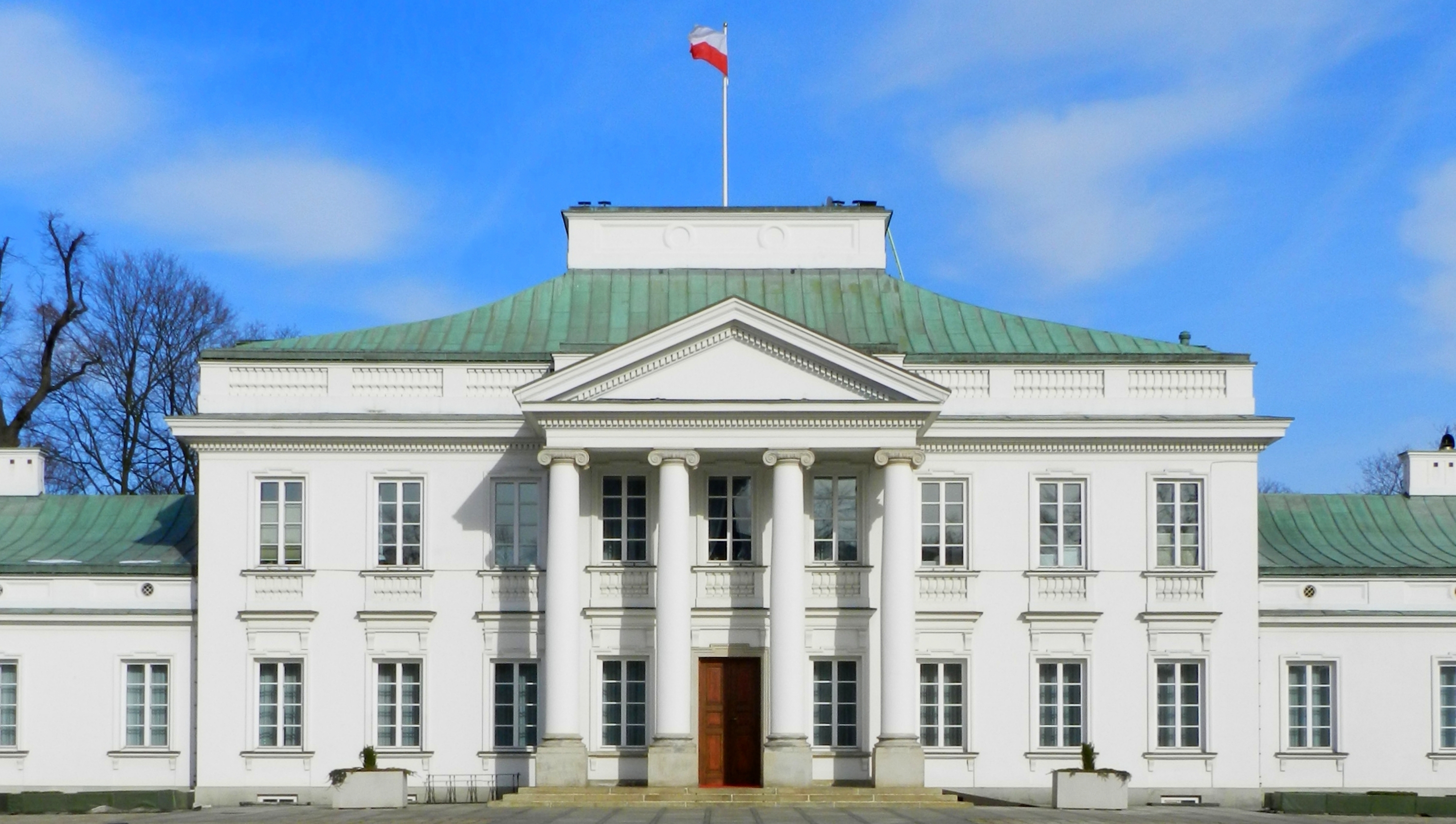 Belweder Palace in Warsaw